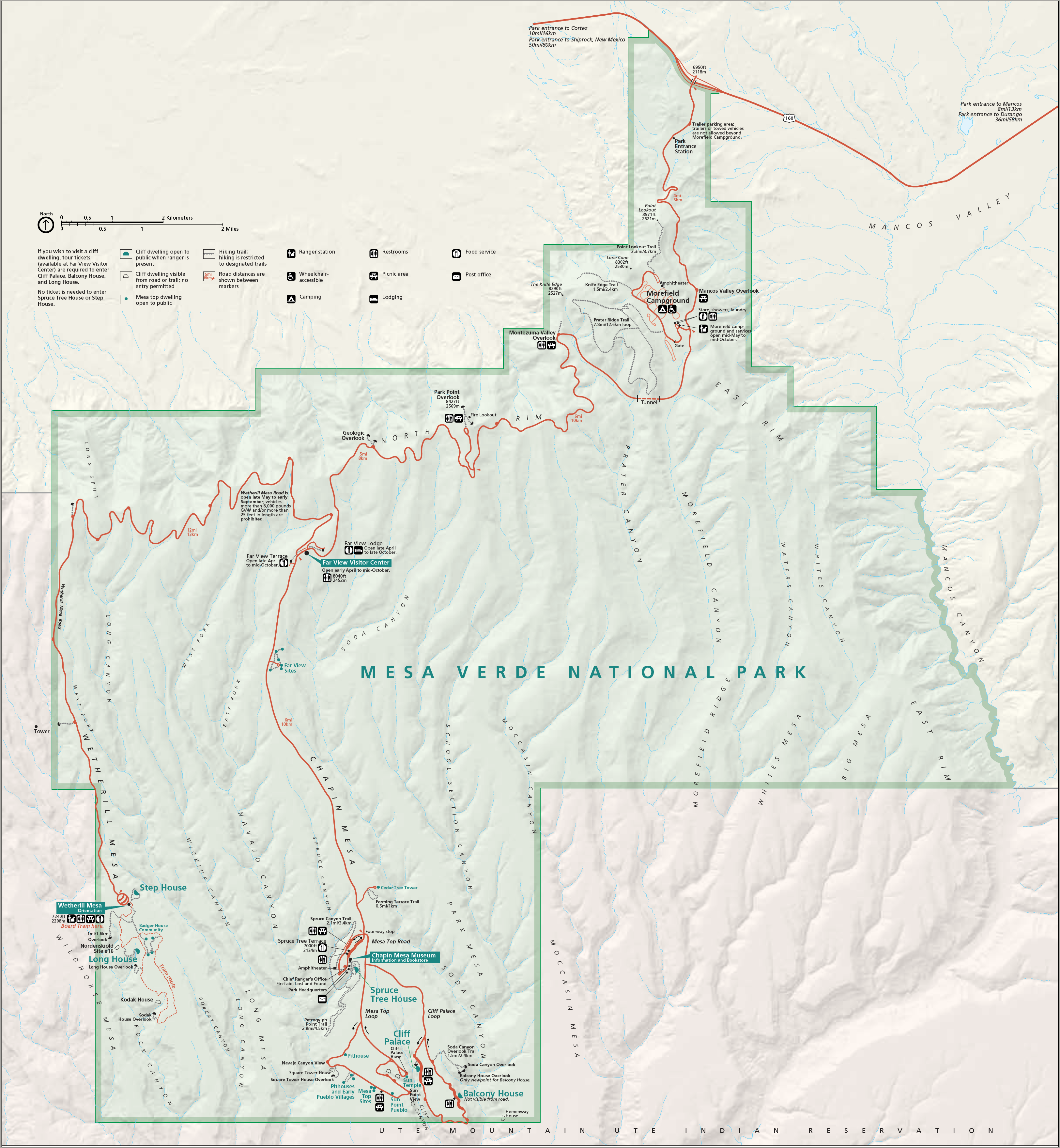 Map of Mesa Verde National Park